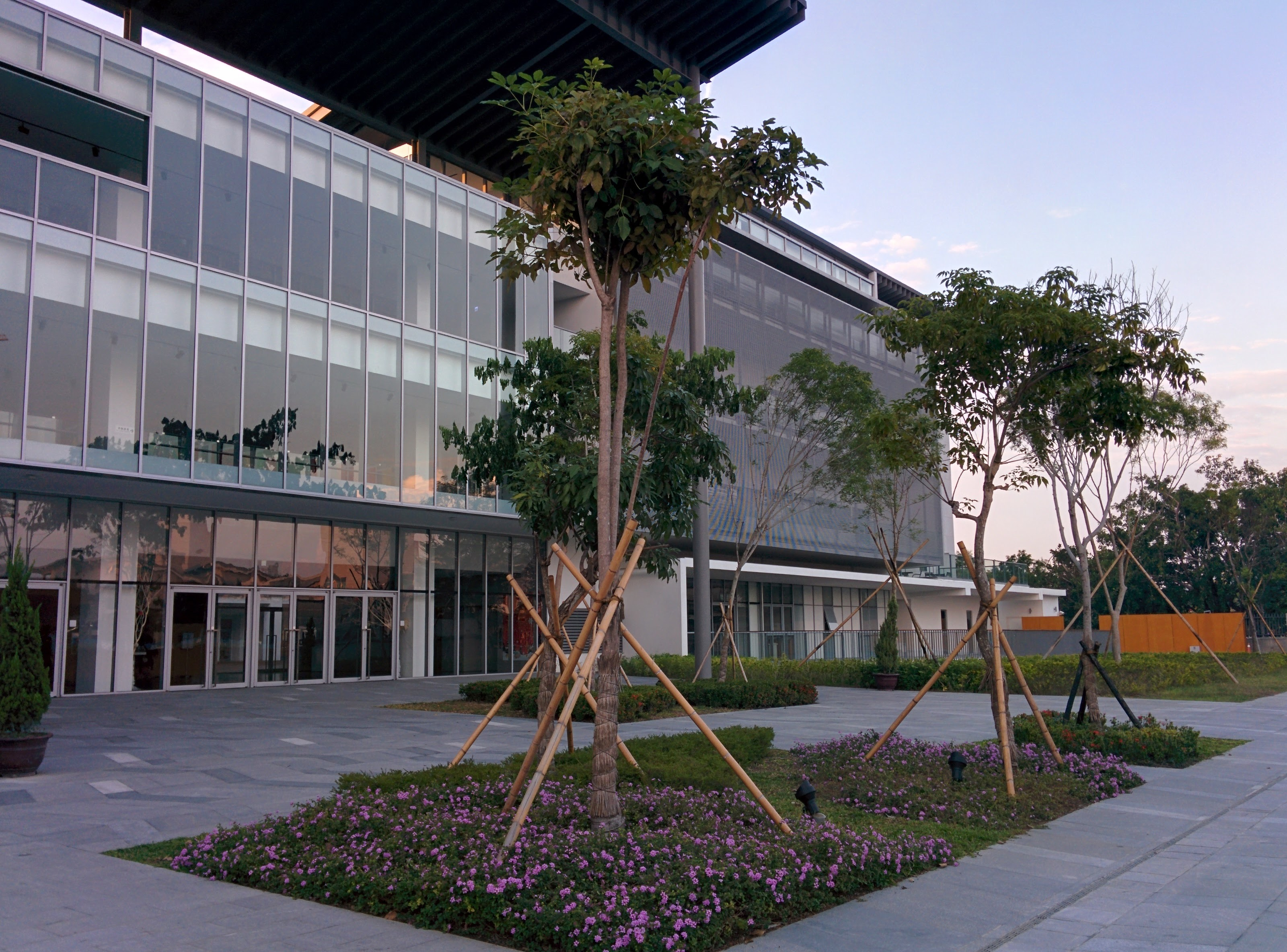 A photo of the new KAS campus building, taken in January 2016